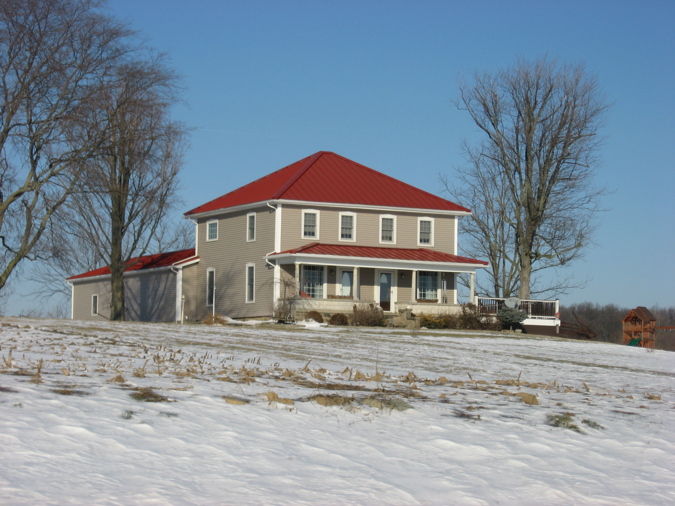 Front and western side of the Edward Kelham House, located at 86 County Road 48 west of Garrett in Keyser Township, DeKalb County, Indiana, United States. Built in 1870, it is listed on the National Register of Historic Places.